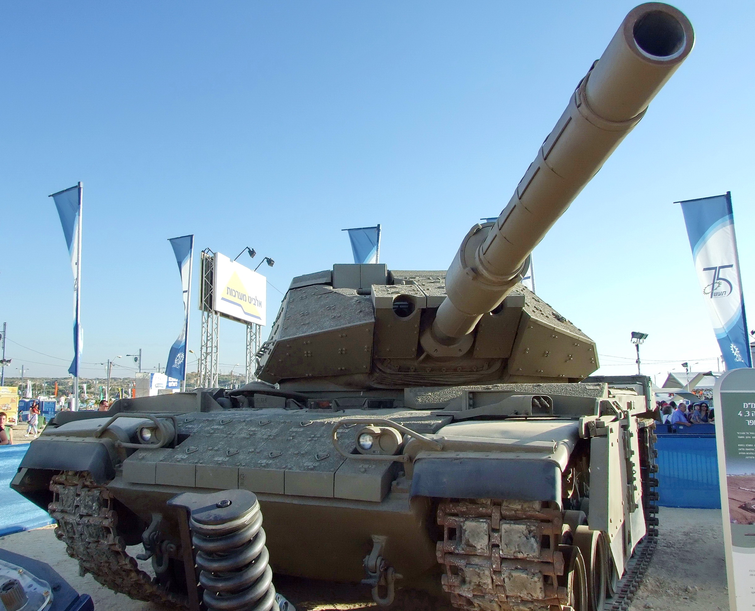 Turkish M60A1 tank upgraded by Israel Military Industries to M60T Sabra. Shown in Rishon LeZion, Israel.